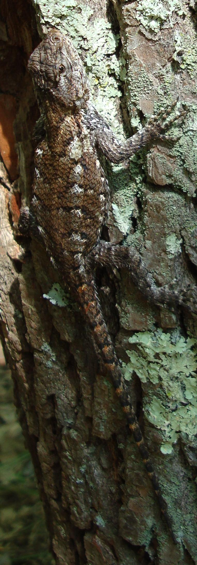 Camouflaged on tree